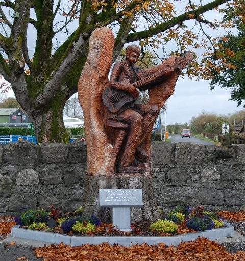 Photograph of a sculpture called The Musician located in Banagher, County Offaly, Ireland.